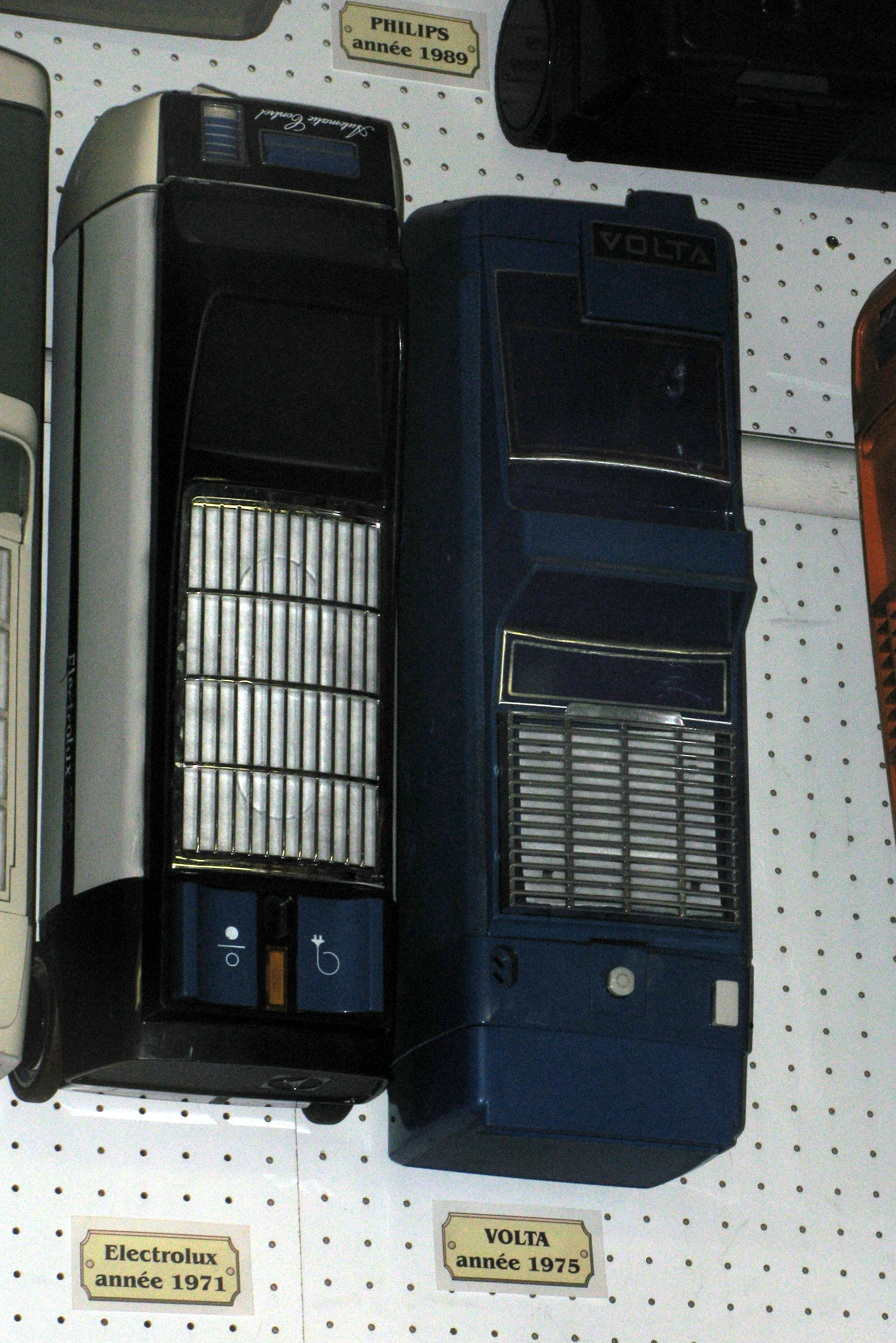 Vintage vacuum cleaner.